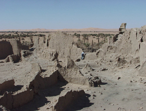 The medieval Casbah at Germa, Fazzan (D.C. Thomas, Jan 2002)